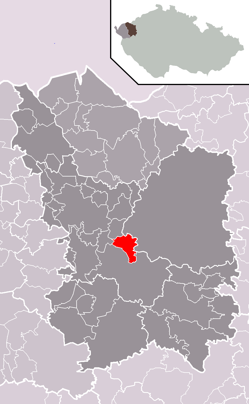 Location of Stružná municipality within Karlovy Vary District and administrative area of Karlovy Vary as a Municipality with Extended Competence.